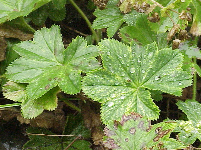 Species: Alchemilla flabellata Family: Rosaceae Image No. 1